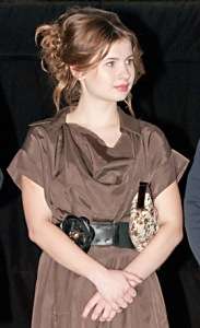 Russian actress Anna Tsukanova. At the «Brest Fortress» premiere in Moscow, November 3, 2010.